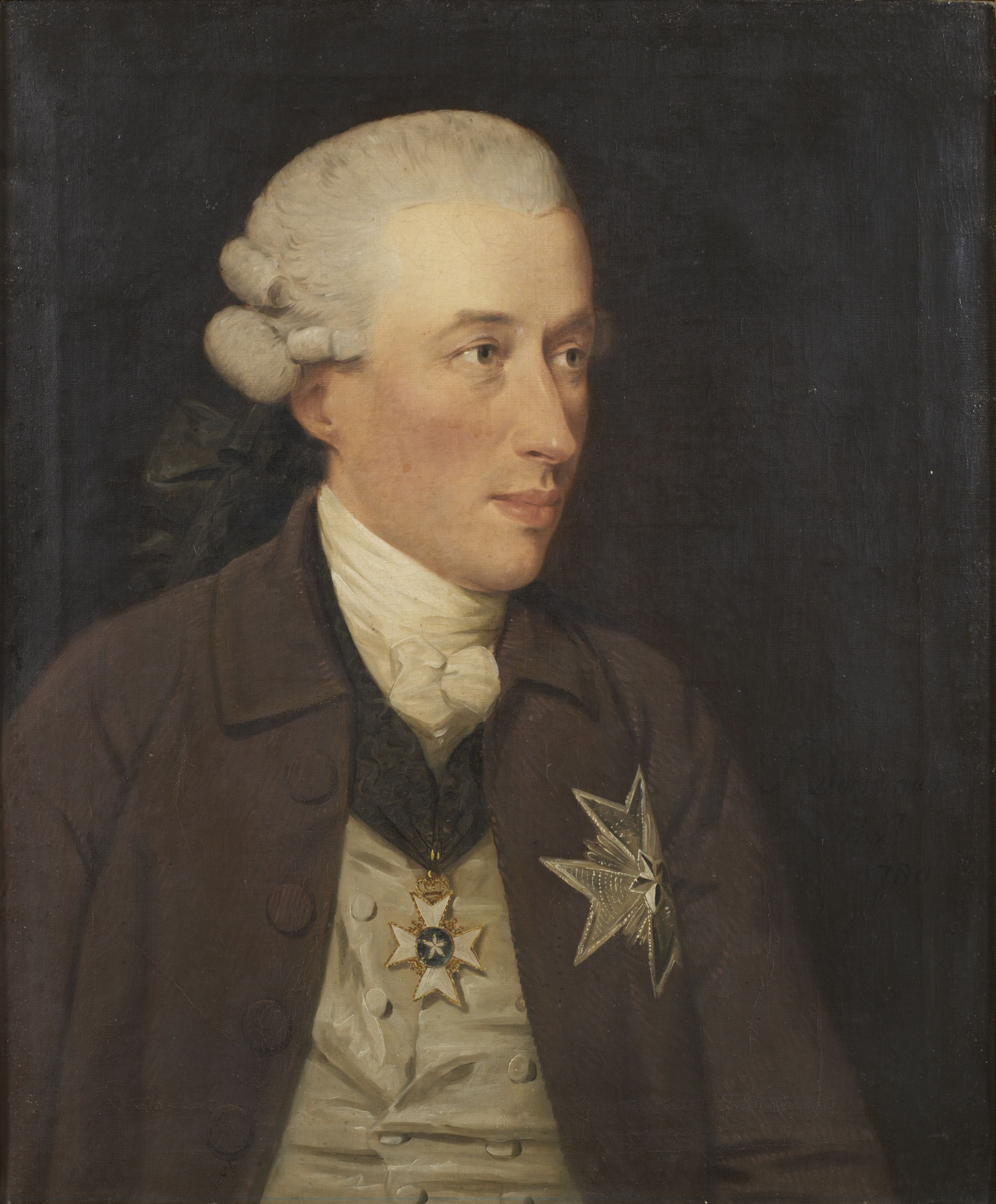 Gerhard Gustaf Adam Nolcken (1733-1812), Swedish diplomat, Ambassador to Great Britain, later president of Göta hovrätt (the Göta Court of Appeals).